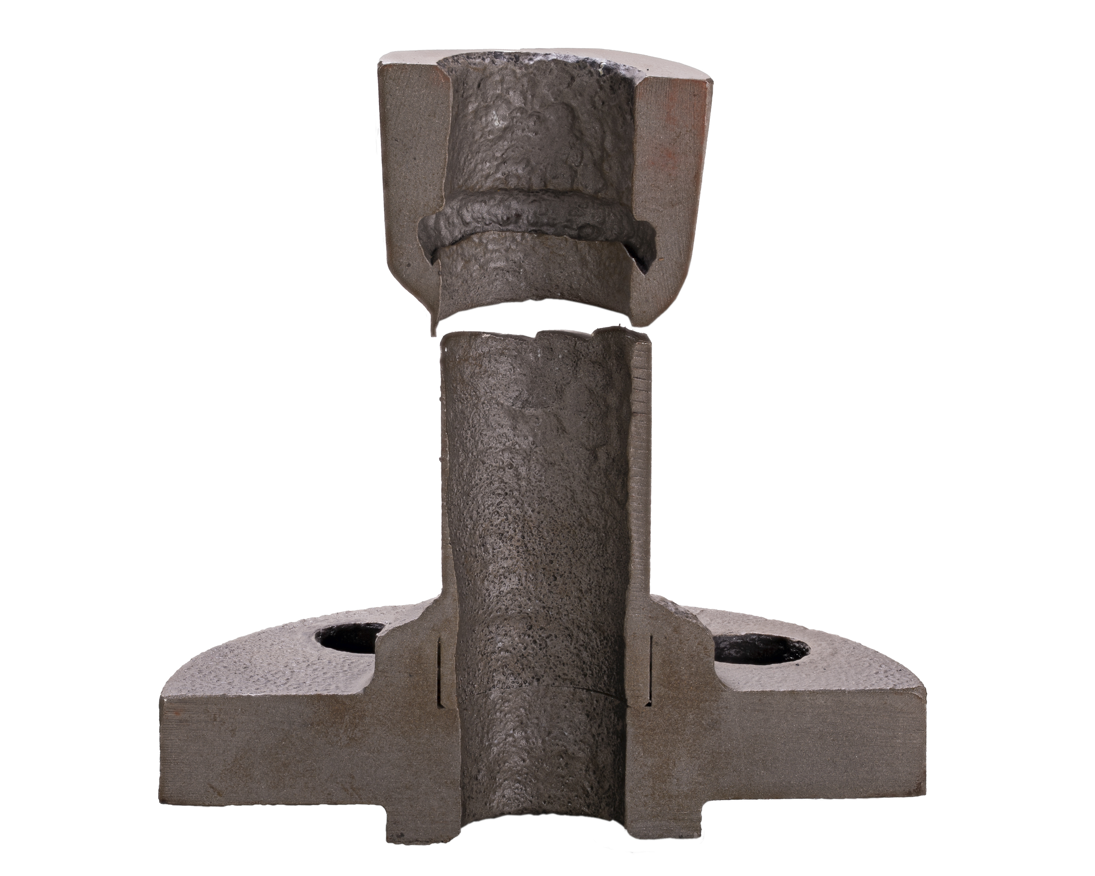 High-temperature sulfur corrosion of a 12 CrMo 19 5 pipe stub (used for insertion of a pressure indicator)